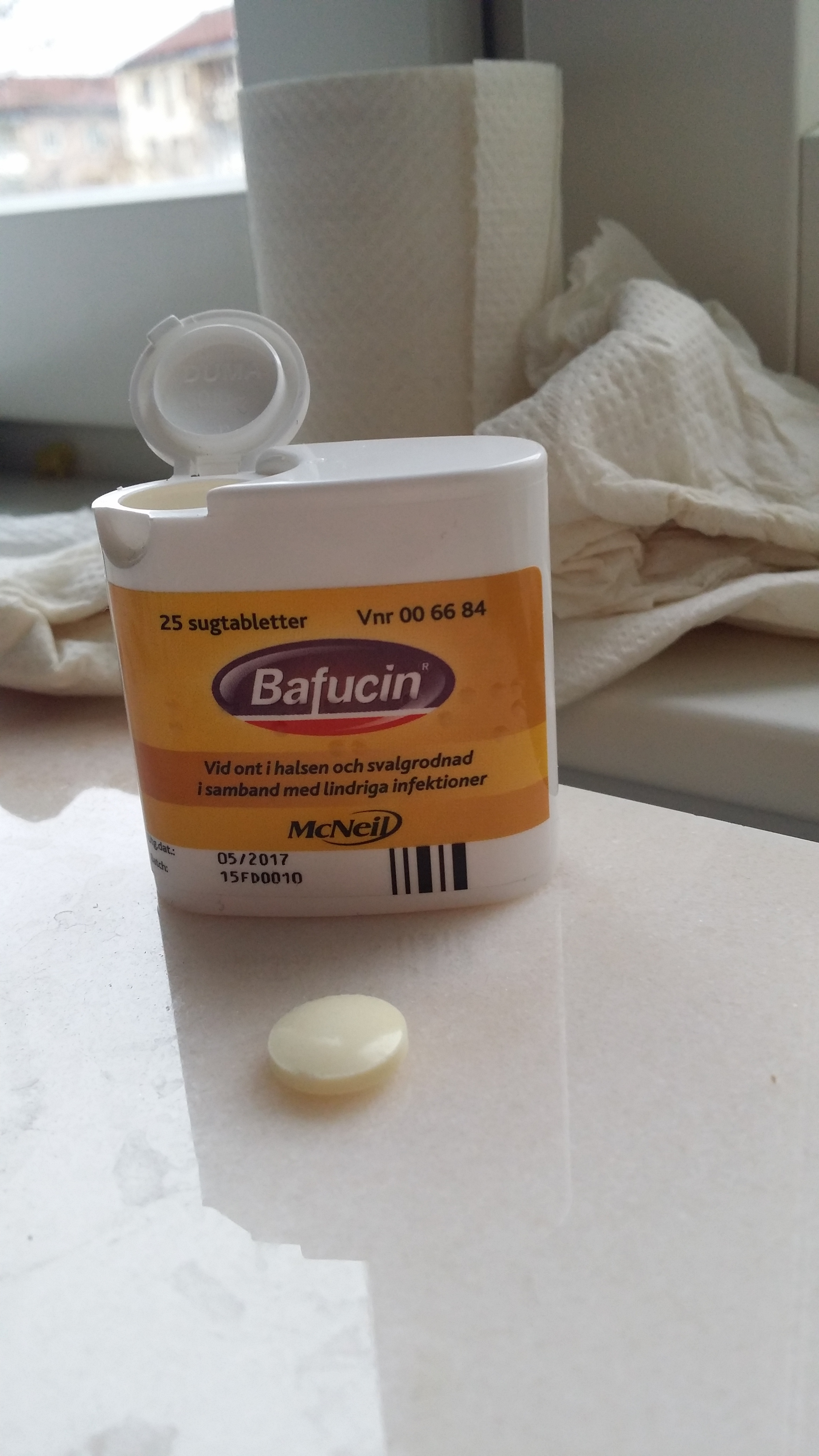 Cough drop "Bafucin"